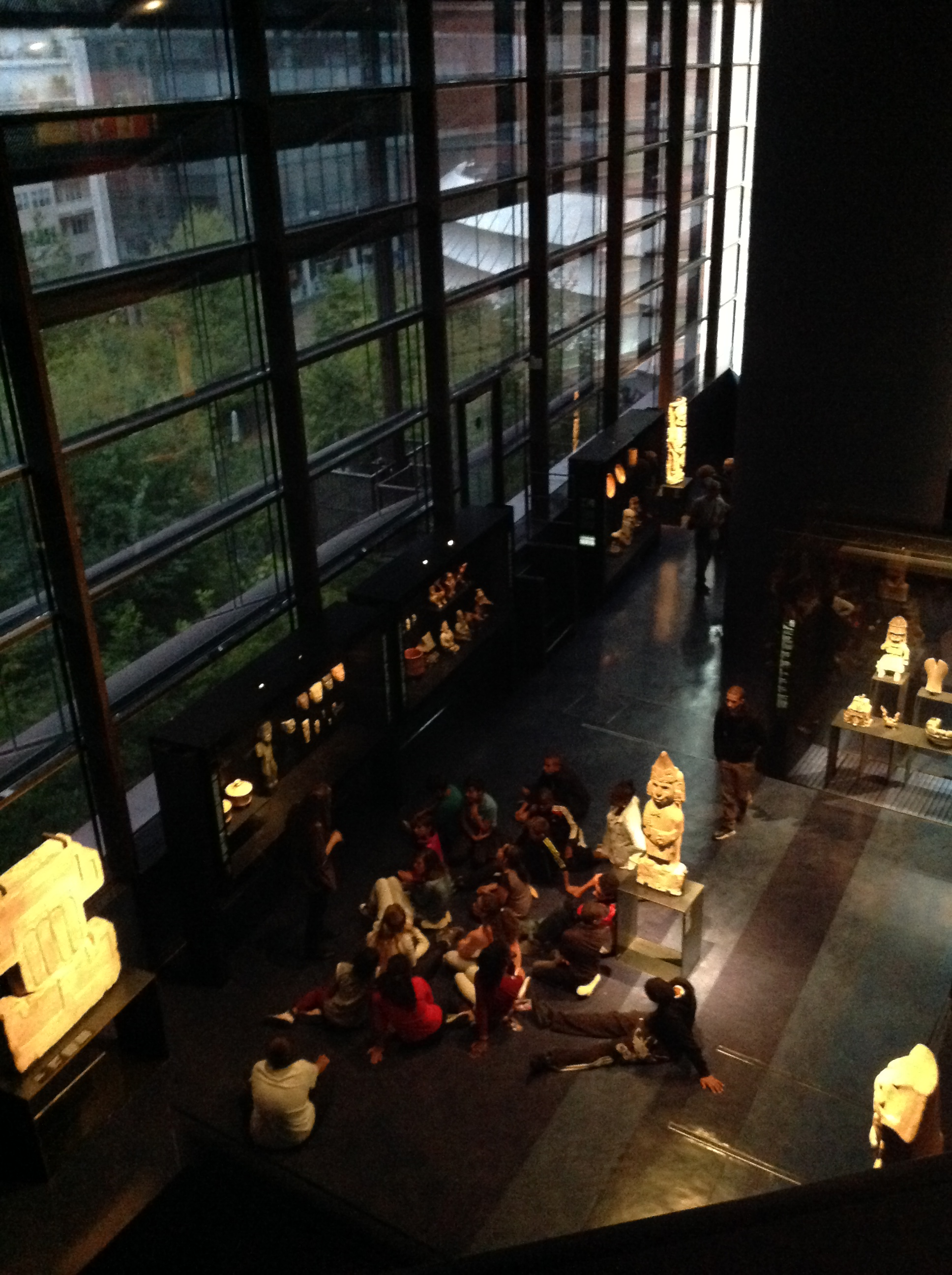 View of the Americas gallery of the Musee du quai Branly from the mezzanine